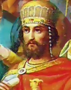 king David IV of Georgia